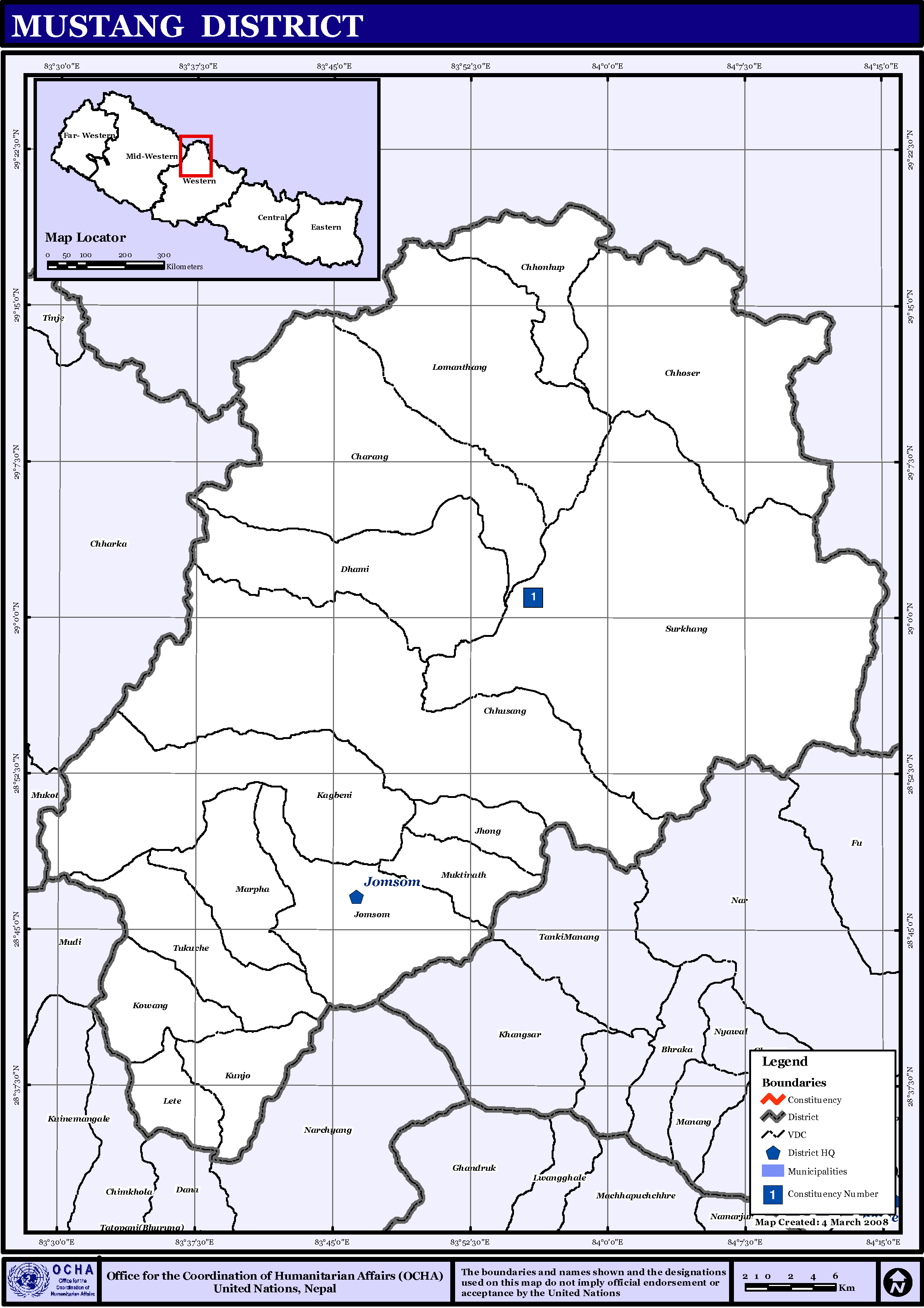 Map displaying Village Development Committees in Mustang District, Nepal